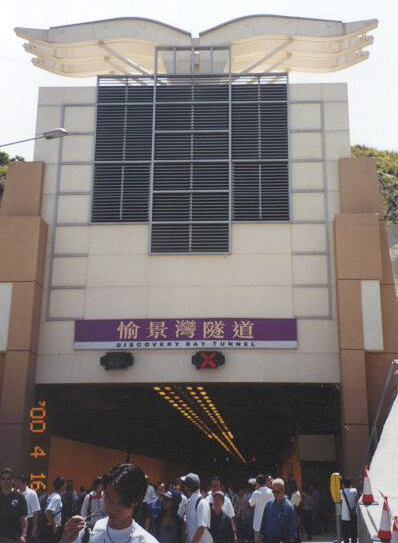 Discovery Bay Tunnel (DB Tunnel), Siu Ho Wan entrance; taken on the day of the DB Tunnel charity walk, prior to its opening.